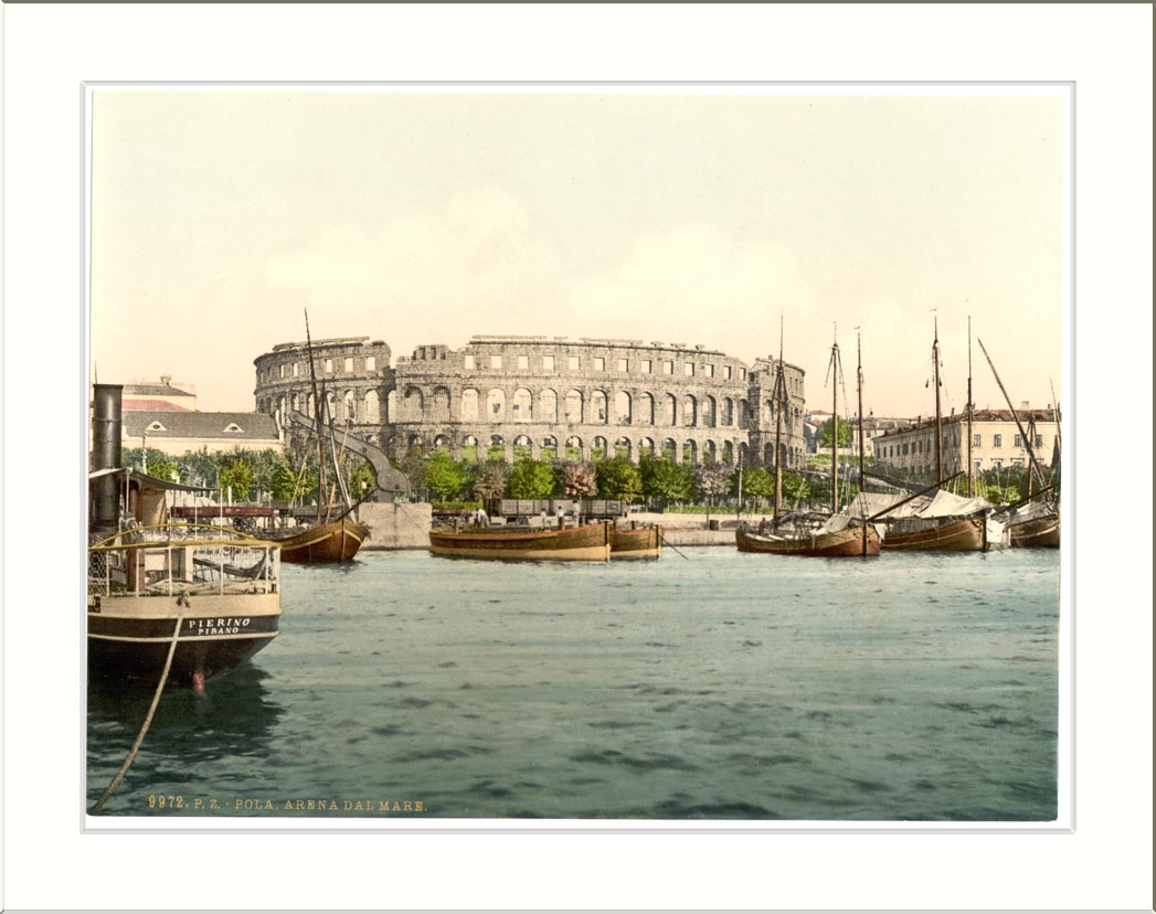 Pola the arena from the sea Istria Austro-Hungary